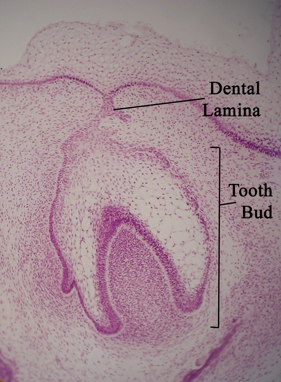 Histology of developing tooth with dental lamina and tooth bud labeled. Photo taken by Dozenist.